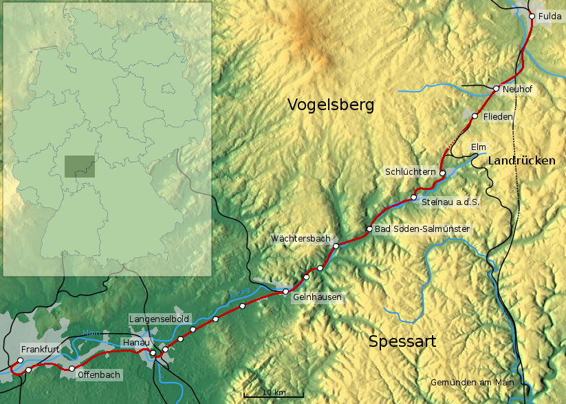 Map of Kinzigtalbahn from Fulda to Frankfurt.